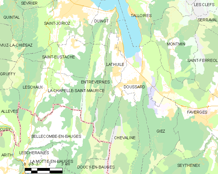 Map of French municipality Lathuile